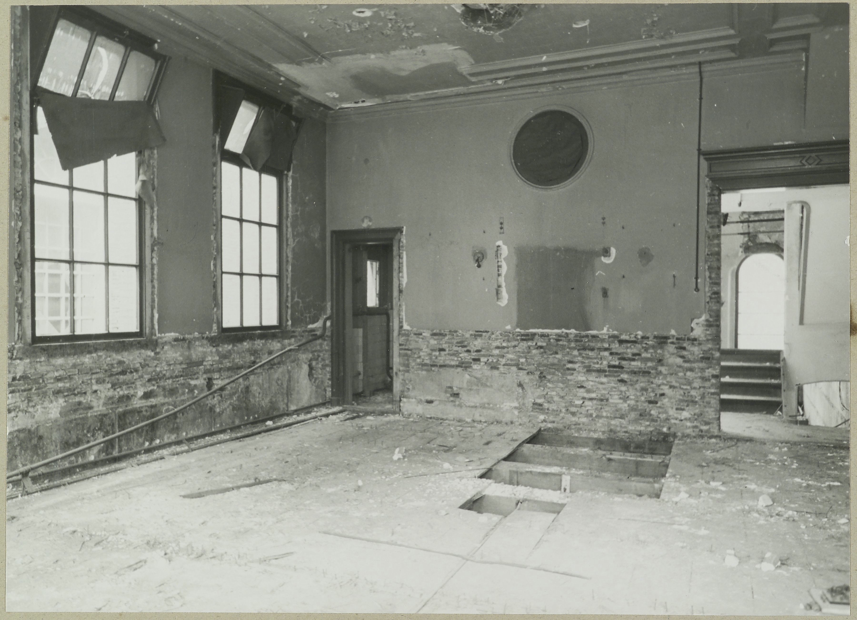 Great Synagogue: Meeting room of the Great Synagogue with damage after the war (Note: Caption: Room of the theological(?) Society: Reischith chogmo)